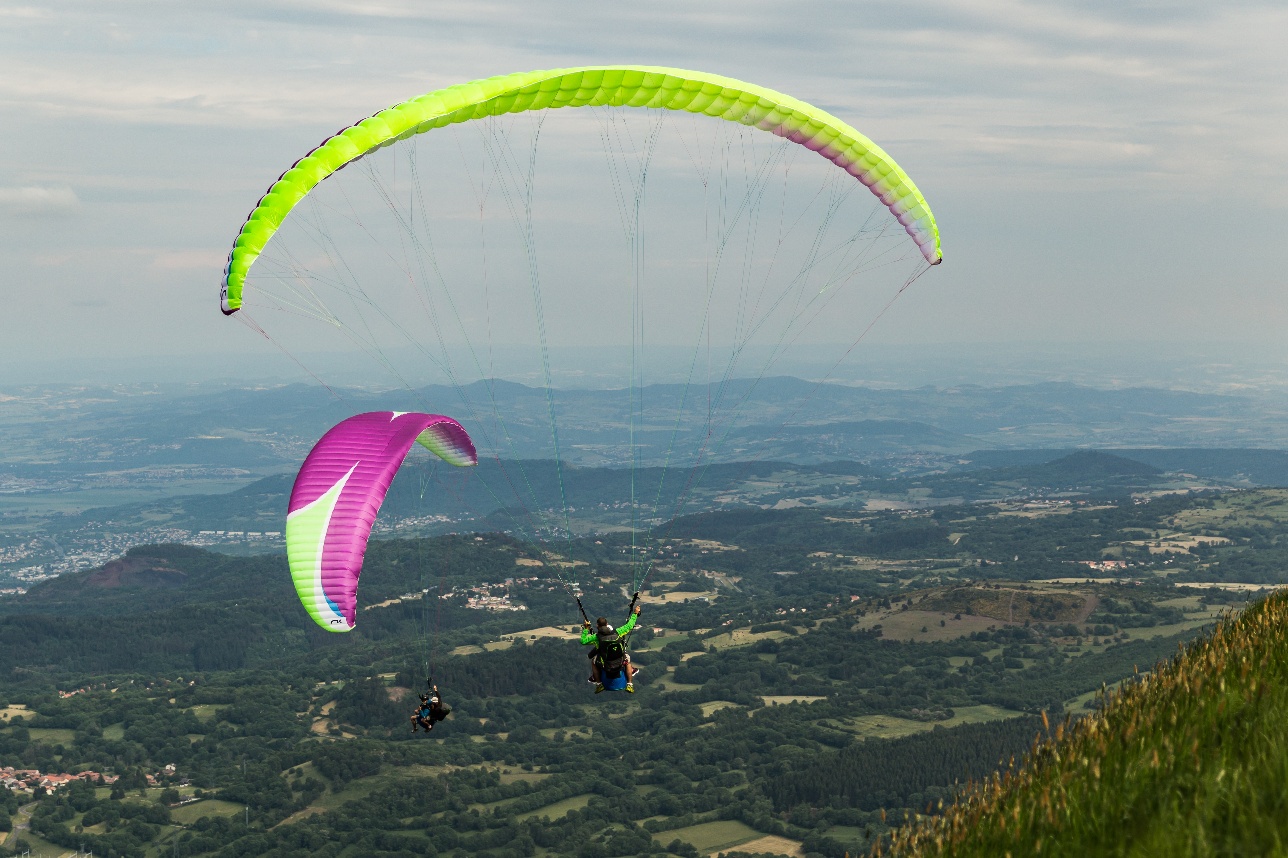 Paragliders on the puy de Dôme, France.